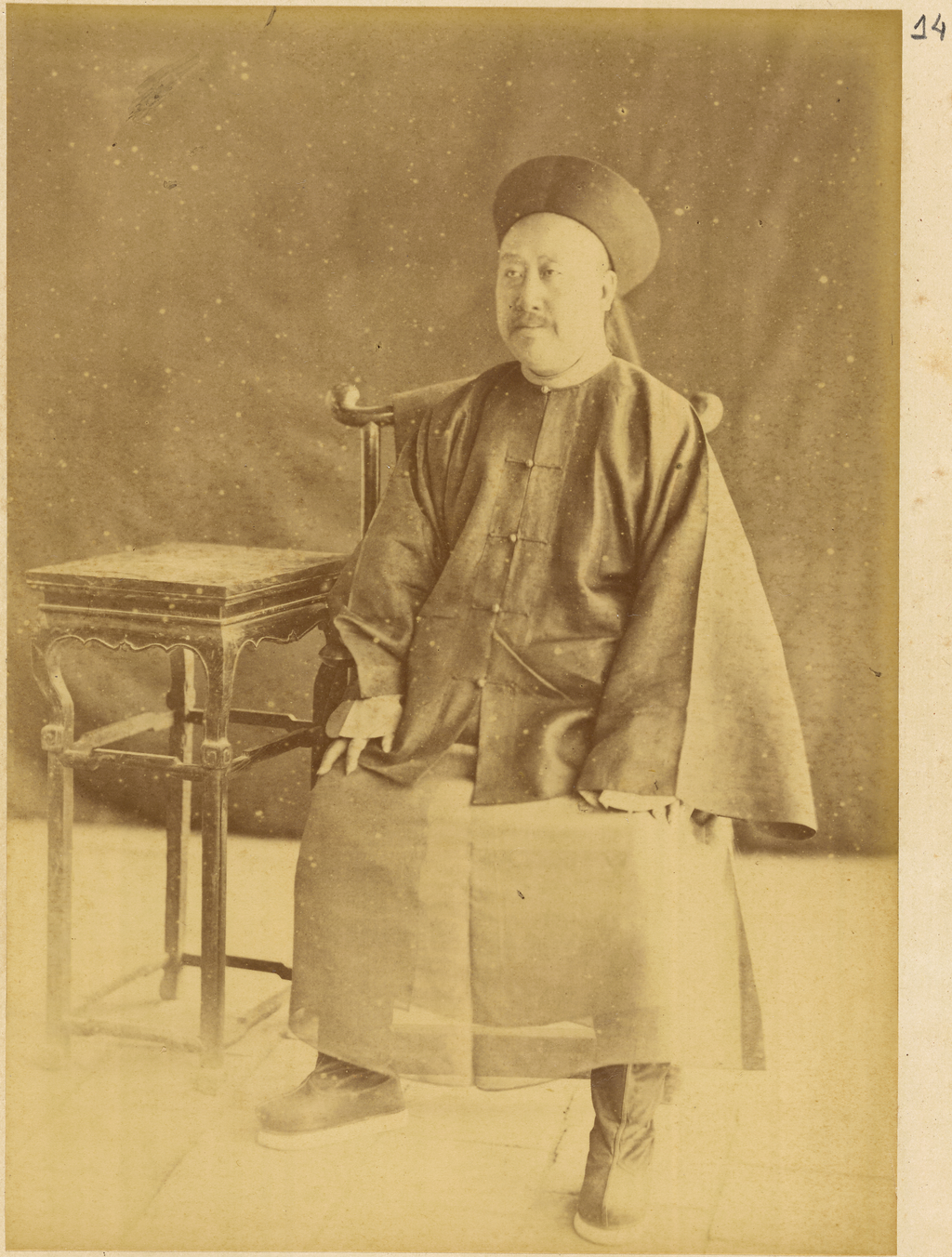 In 1874-75, the Russian government sent a research and trading mission to China to seek out new overland routes to the Chinese market, report on prospects for increased commerce and locations for consulates and factories, and gather information about the Dungan Revolt then raging in parts of western China. Led by Lieutenant Colonel Iulian A. Sosnovskii of the army General Staff, the nine-man mission included a topographer, Captain Matusovskii; a scientific officer, Dr. Pavel Iakovlevich Piasetskii; Chinese and Russian interpreters; three non-commissioned Cossack soldiers; and the mission photographer, Adolf Erazmovich Boiarskii. The mission proceeded from Saint Petersburg to Shanghai via Ulan Bator (Mongolia), Beijing, and Tianjin, and then followed a route along the Yangtze River, along the Great Silk Road through the Hami oasis, to Lake Zaysan, back to Russia. Boiarskii took some 200 photographs, which constitute a unique resource for the study of China in this period. Most of the photographs are included in this album, which later became part of the Thereza Christina Maria Collection assembled by Emperor Pedro II of Brazil and given by him to the National Library of Brazil. Chinese; Government officials; Memory of the World; Portrait photographs; Qing dynasty, 1644-1911